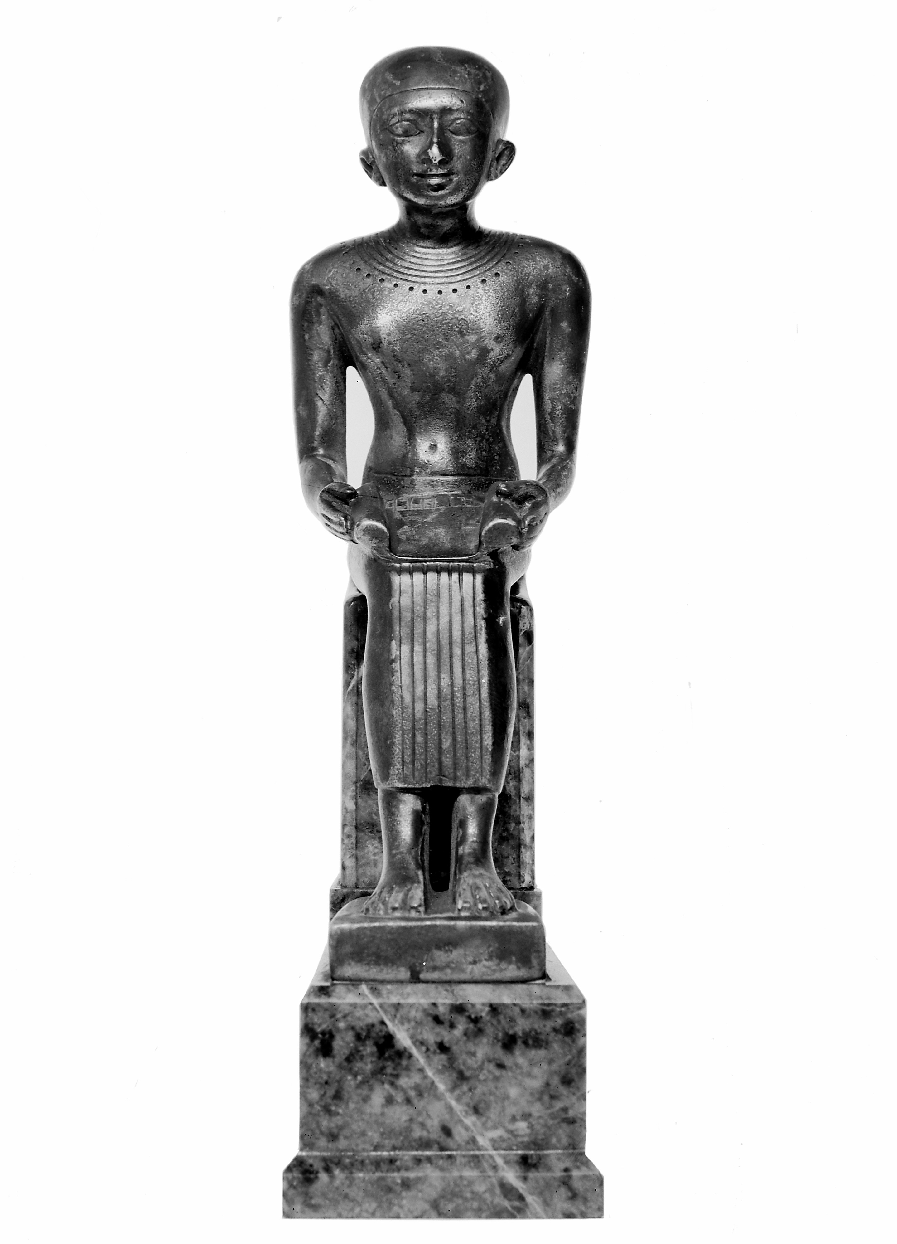 I-M-Hotep, Egyptian god of the physicians, silver statuette showing him seated and holding a roll of papyrus. Wellcome Images Keywords: I-M-Hotep